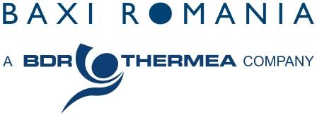 company logo